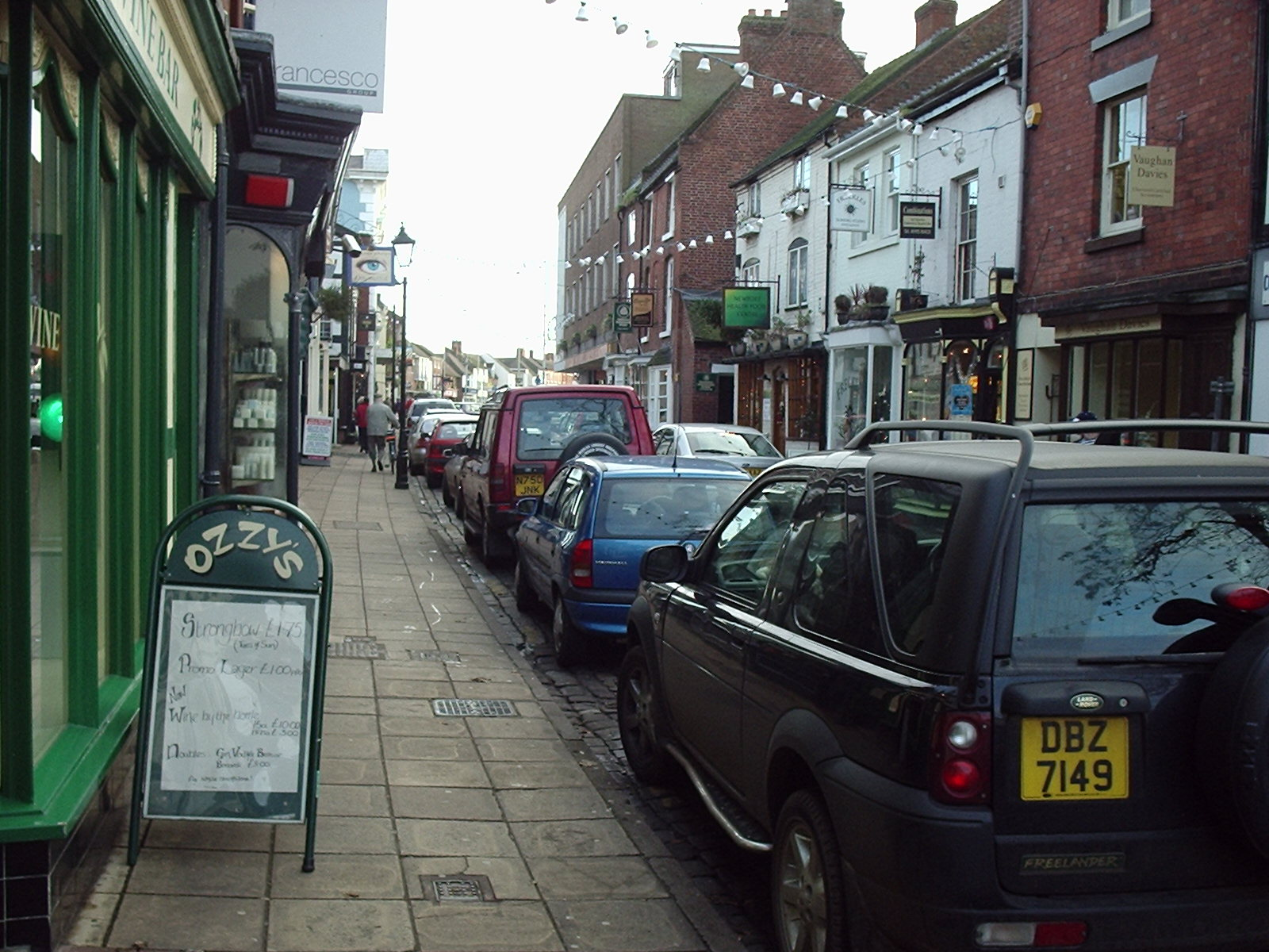 Newport.